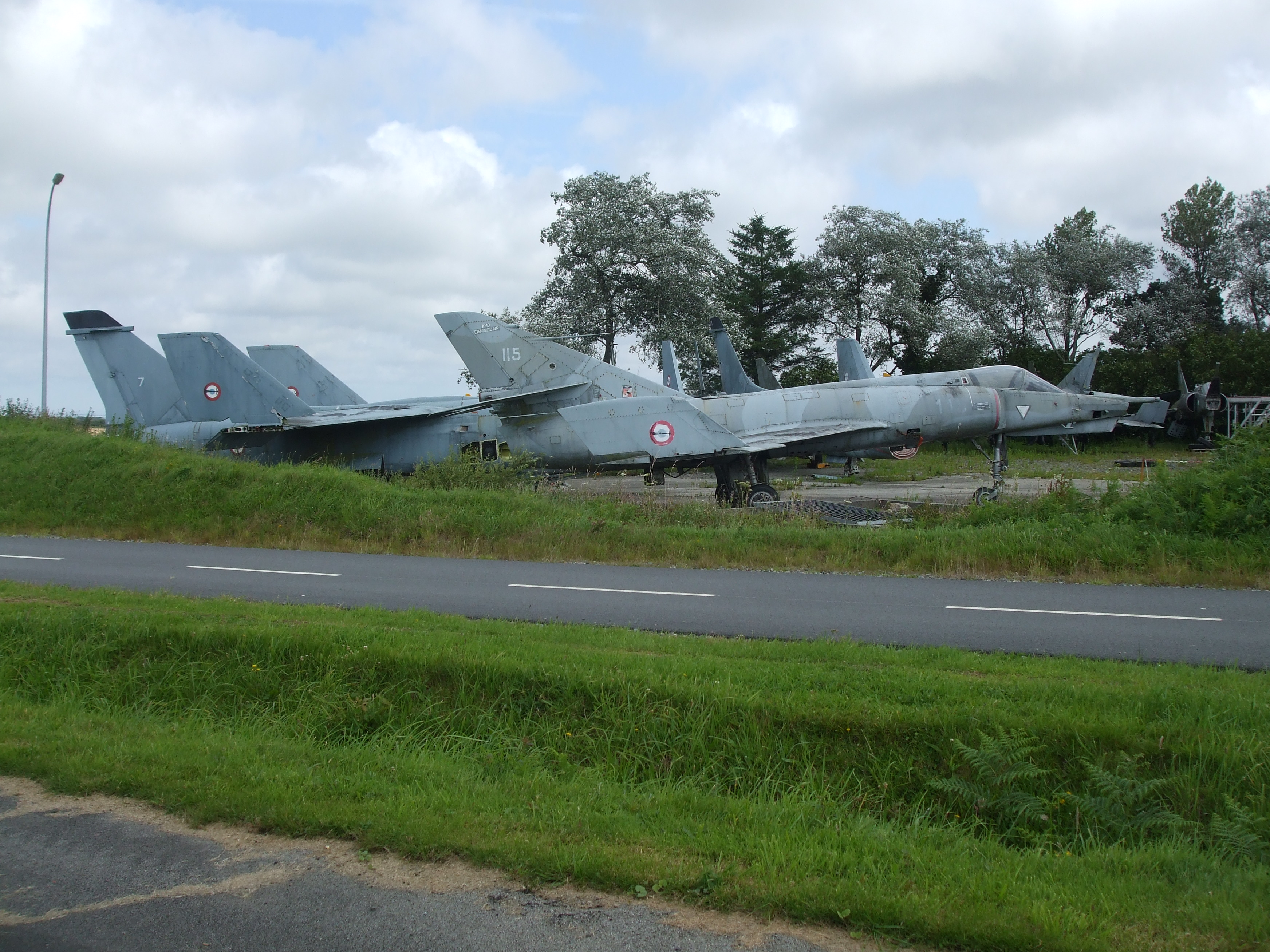 Retired Étendard and Crusader carrier-based fighters of the French Navy await their fate at the western fence of naval air station Landivisiau in Brittany.